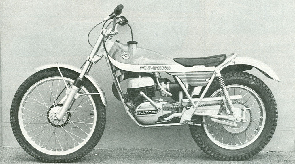 1974 Bultaco Sherpa T 350